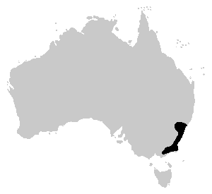 Distribution of the Blue Mountains Tree Frog (Litoria citropa).